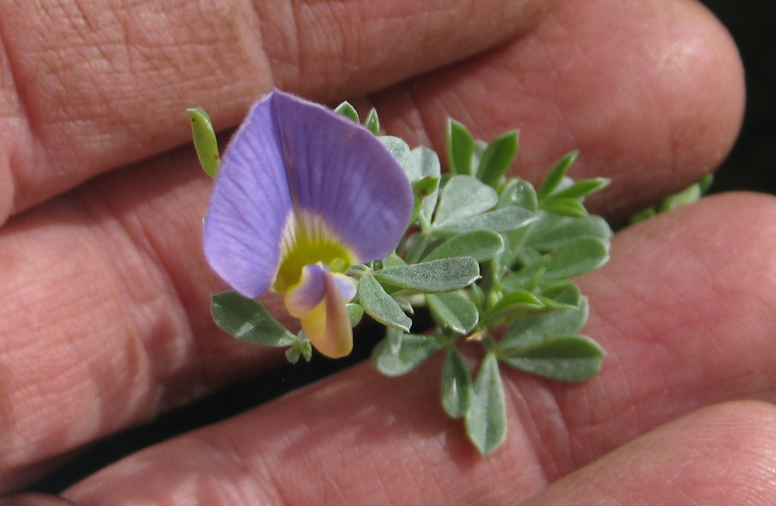 Lotononis galpinii